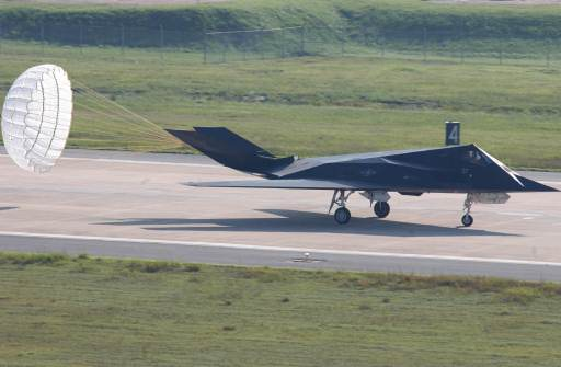 A 9th Expeditionary Fighter Squadron F-117 Stealth fighter lands safely after completing a training mission at Kunsan Air Base, South Korea on Aug. 24, 2004. (U.S. Air Force Photo by Staff Sgt. Michael R. Holzworth) (Released)